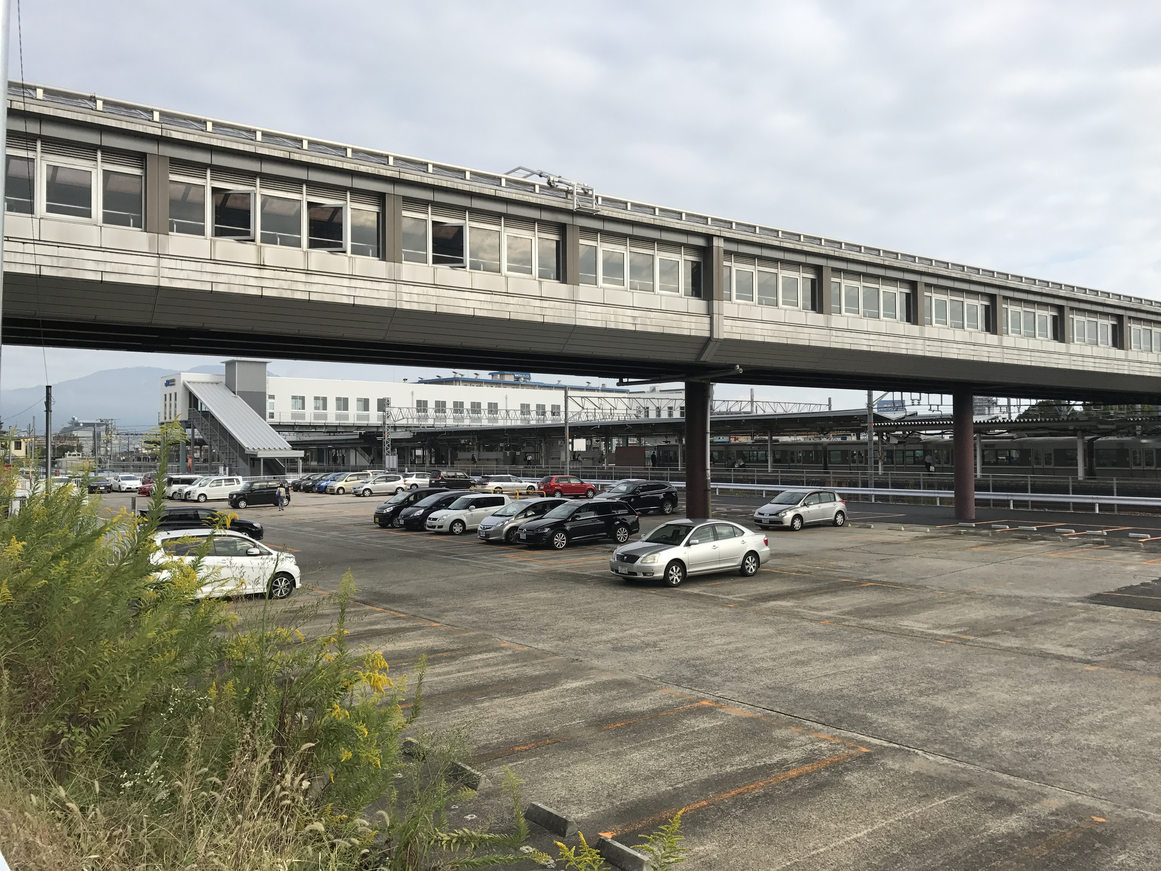 Zeze station overview